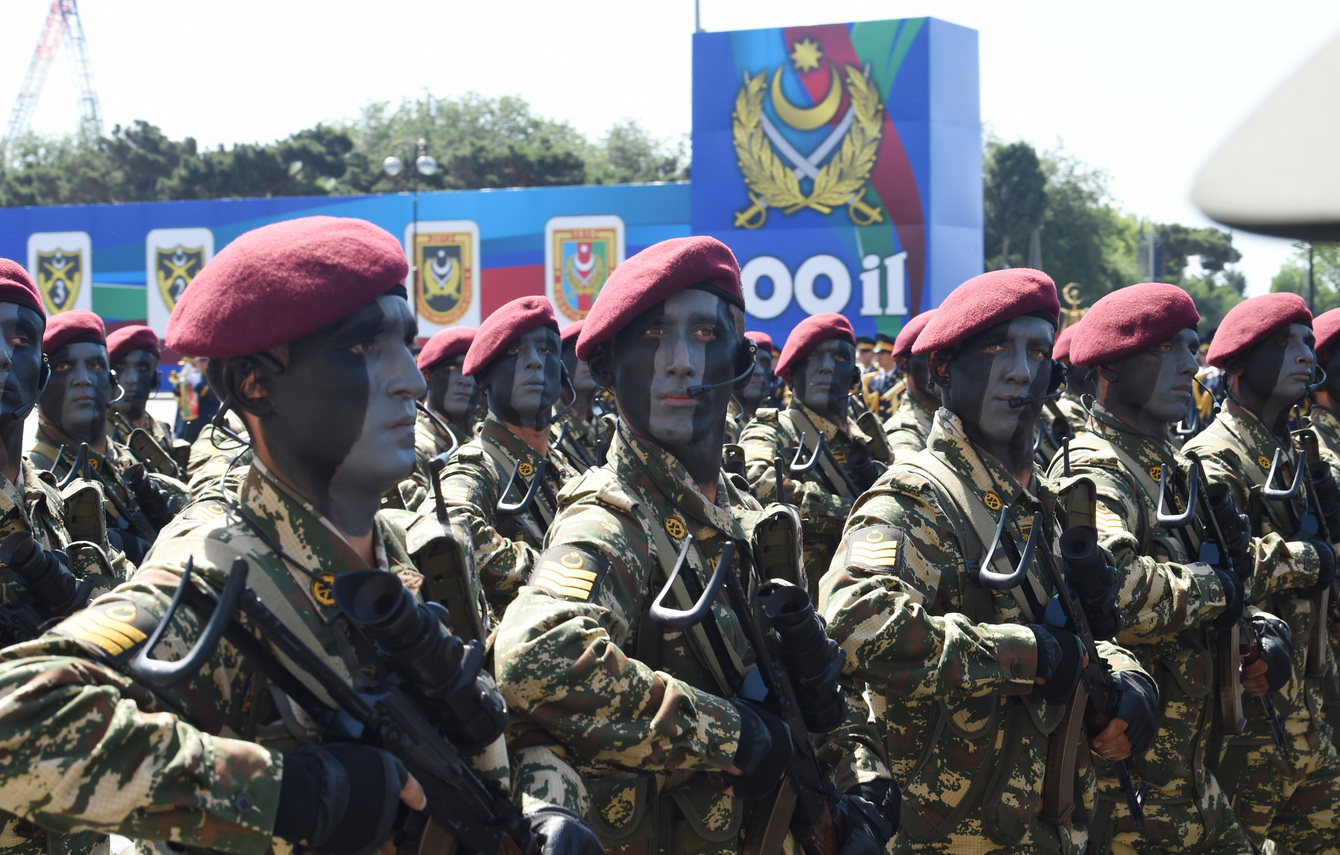 A solemn military parade has been held in Baku to mark the centenary of the establishment of the Armed Forces of the Republic of Azerbaijan.